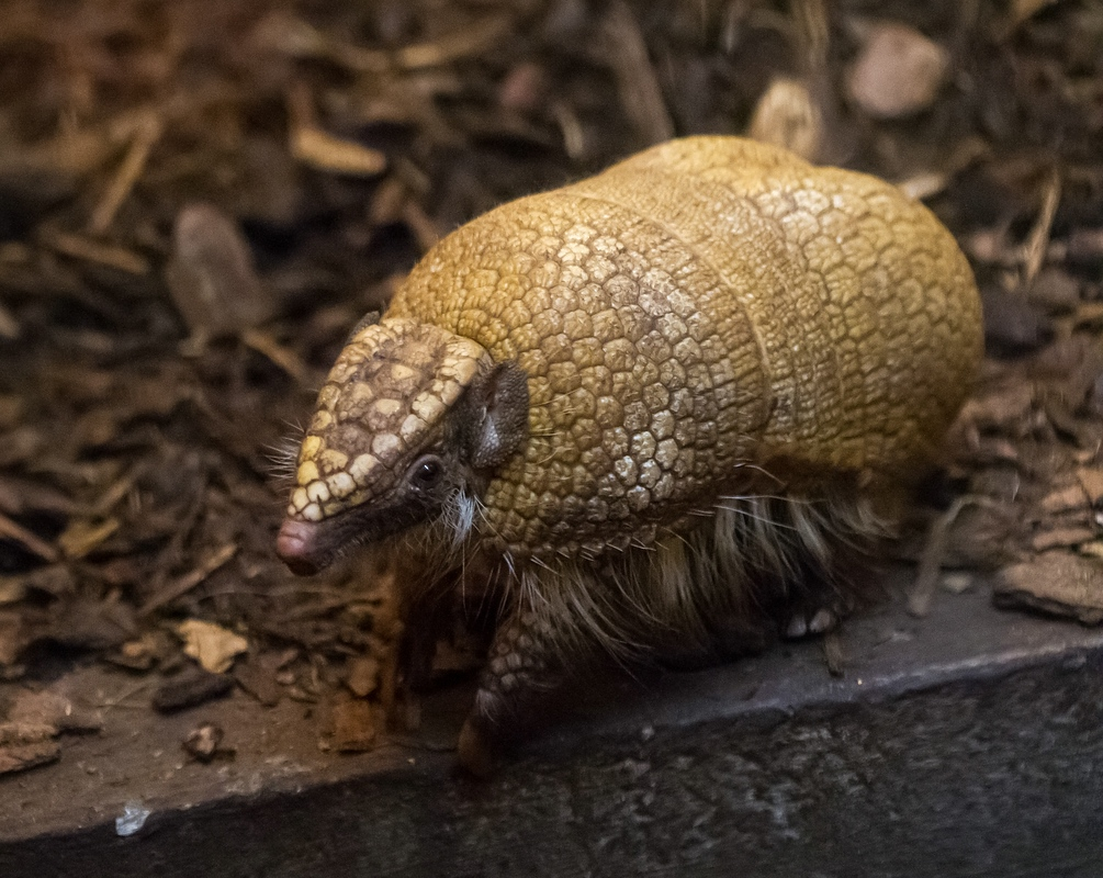 Tierpark Chemnitz: Southern three-banded armadillo